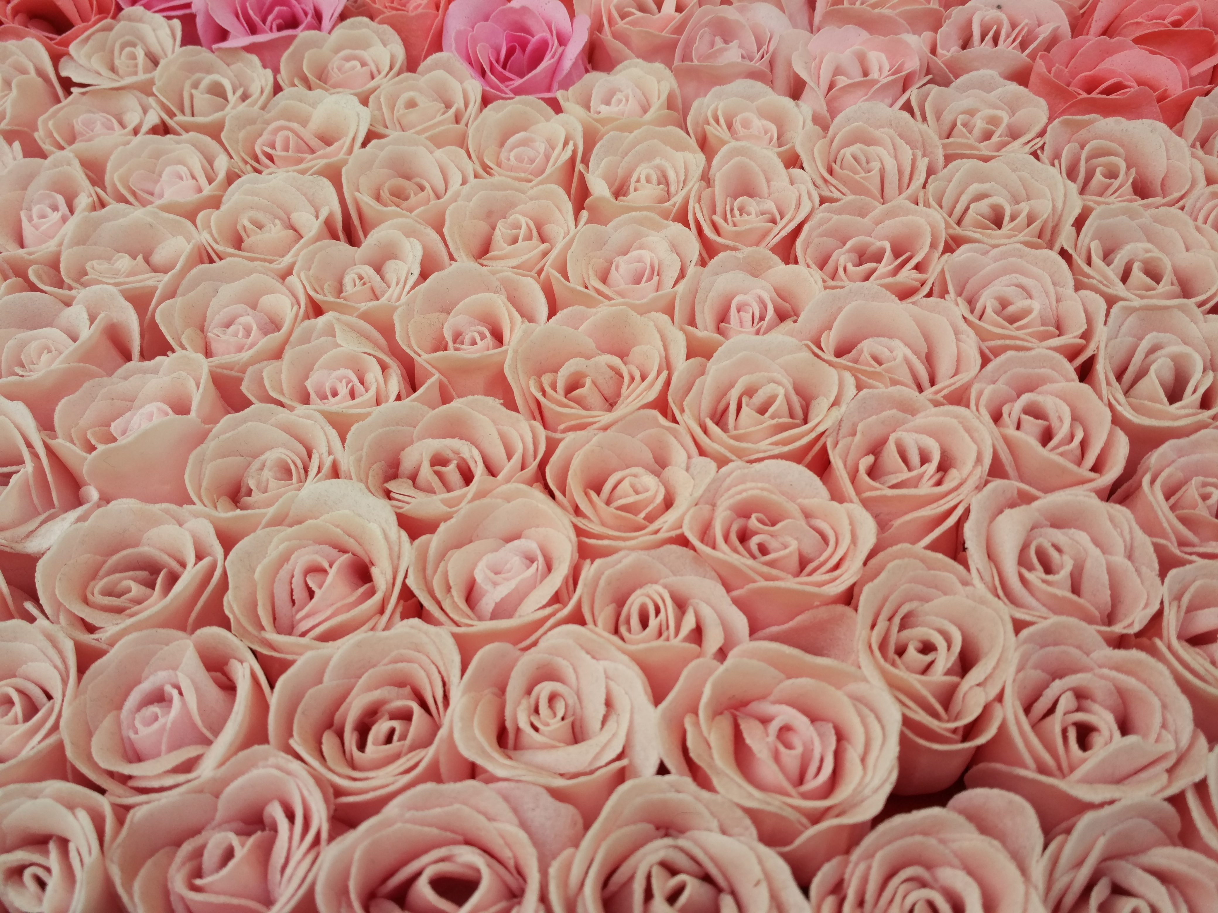 soap shaped as roses